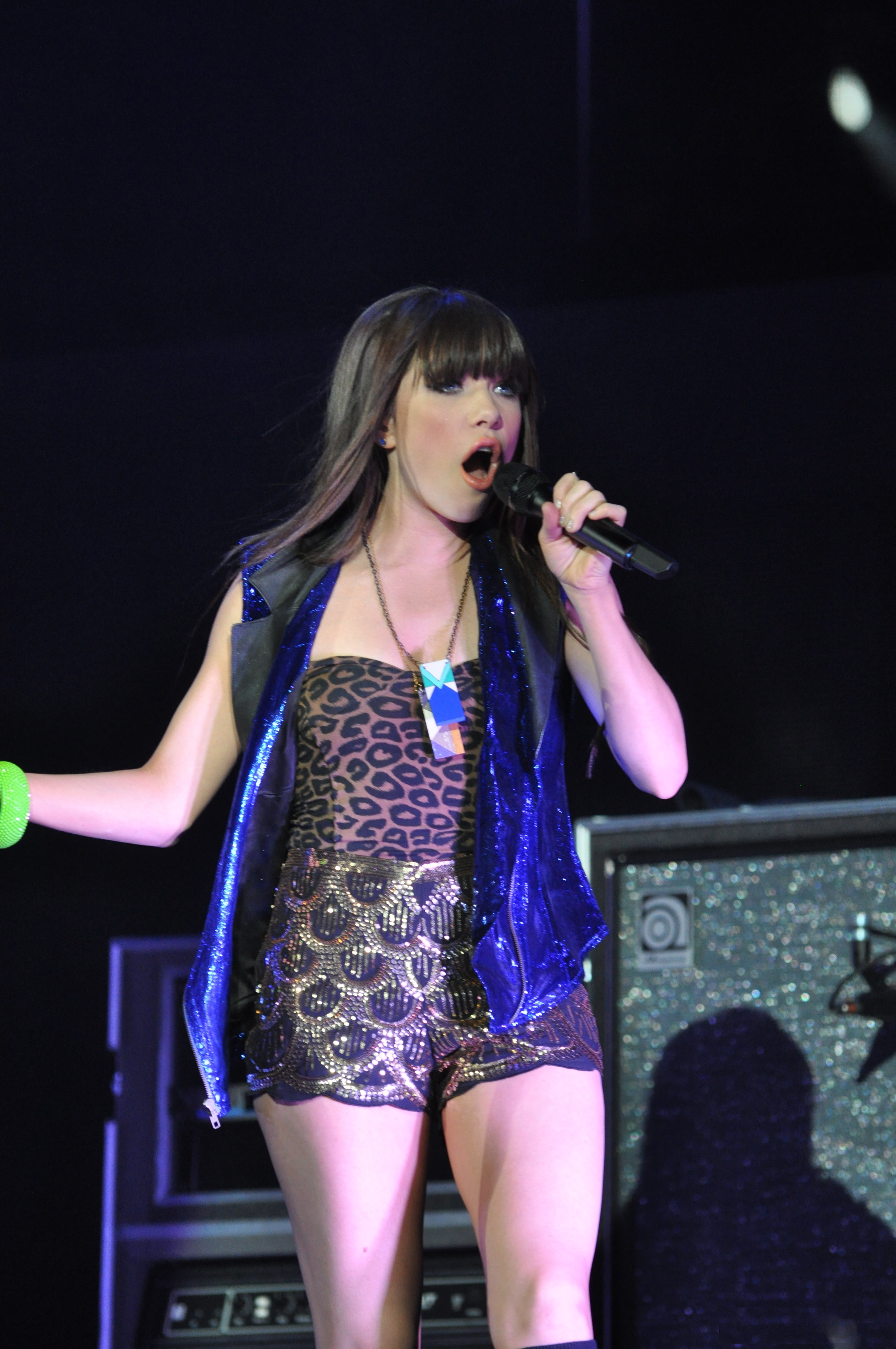 Carly Rae Jepson-DSC_0121-10.20.12